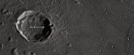 Autolycus lunar crater as seen from Earth with satellite craters labeled